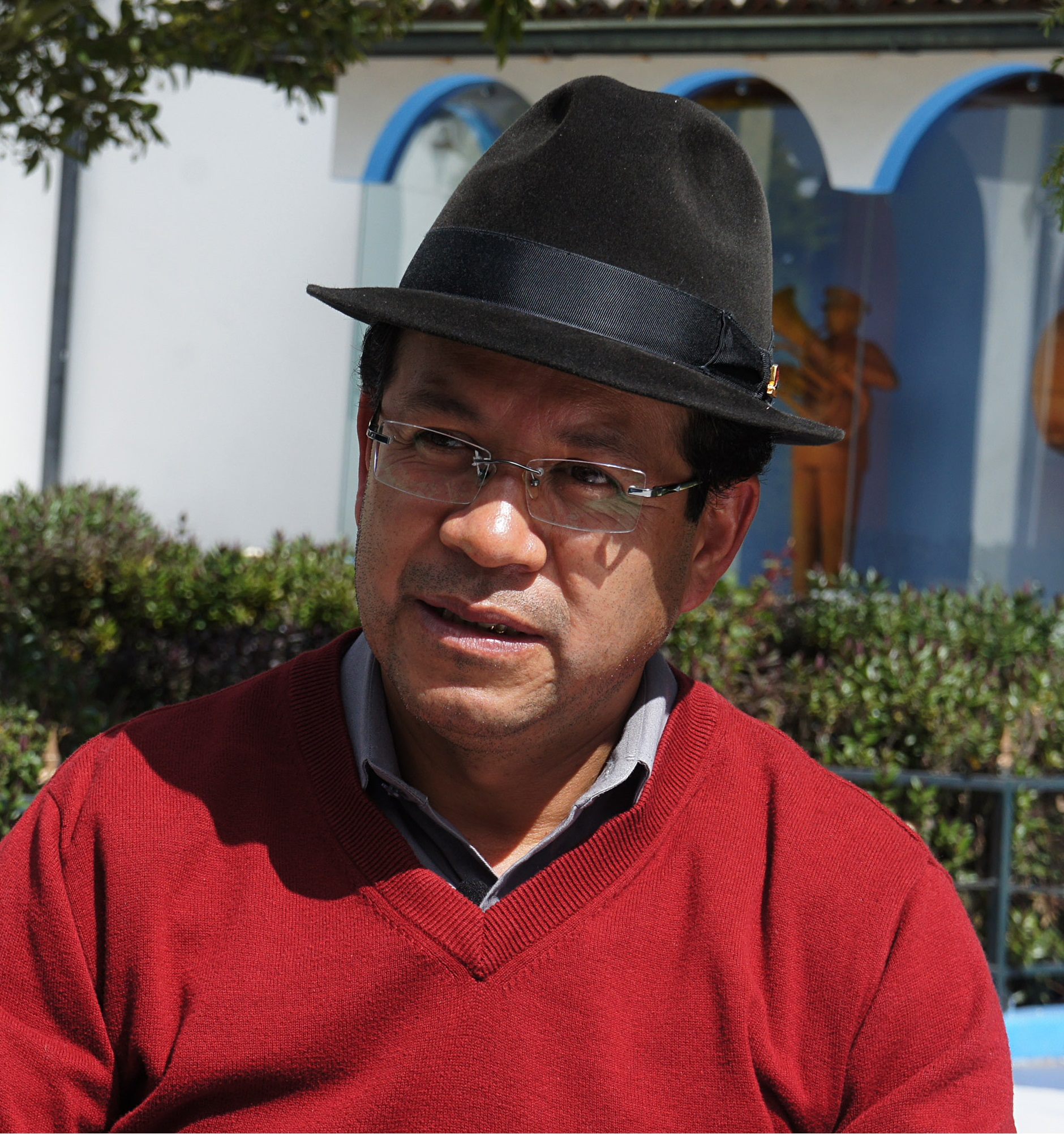 Jorge Guamán. Cropped from File:Ecuador No Para - Entrevista con Jorge Guamán (26 de agosto de 2015).jpg